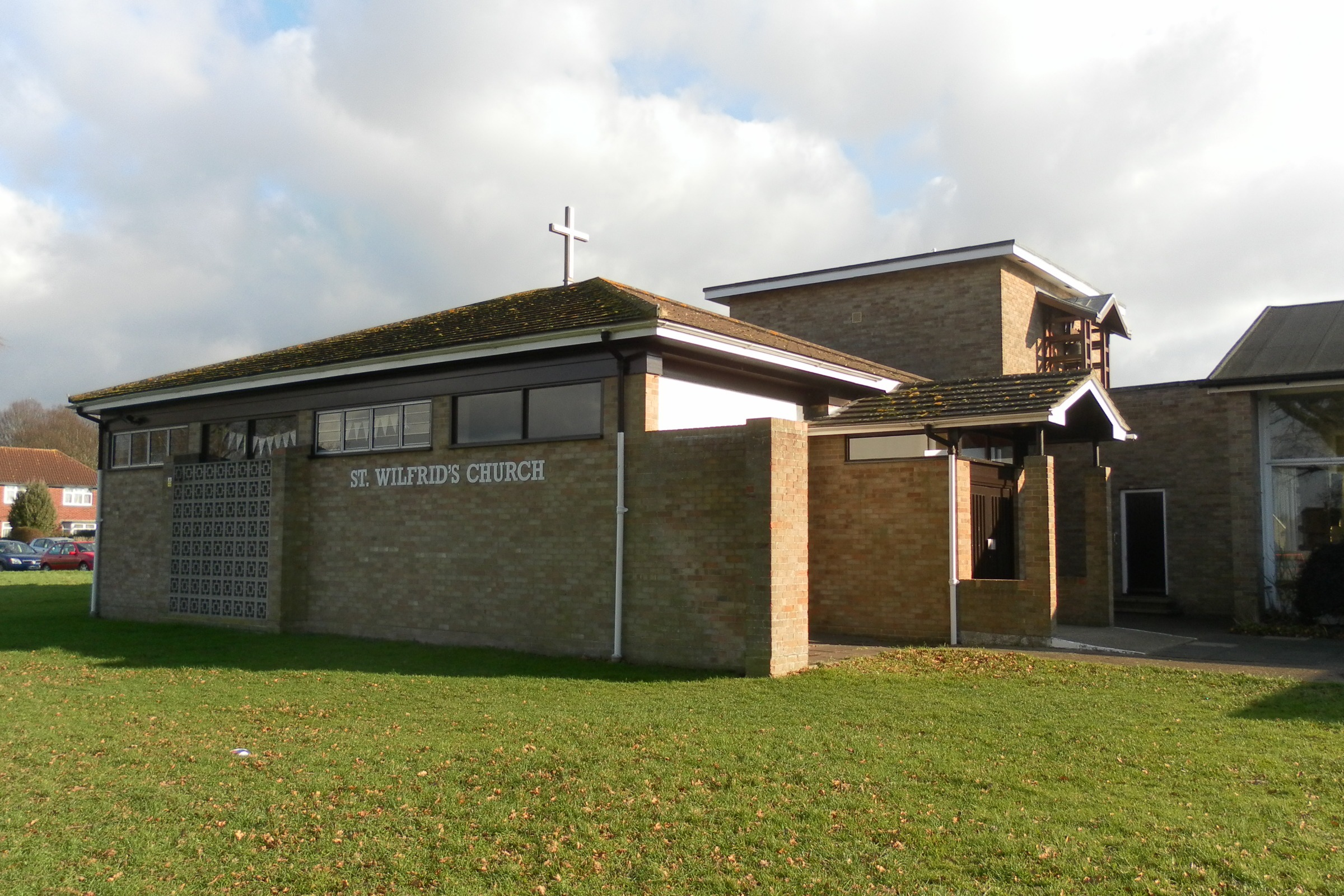 St Wilfrid's parish church, Sherborne Road, Chichester, West Sussex, England